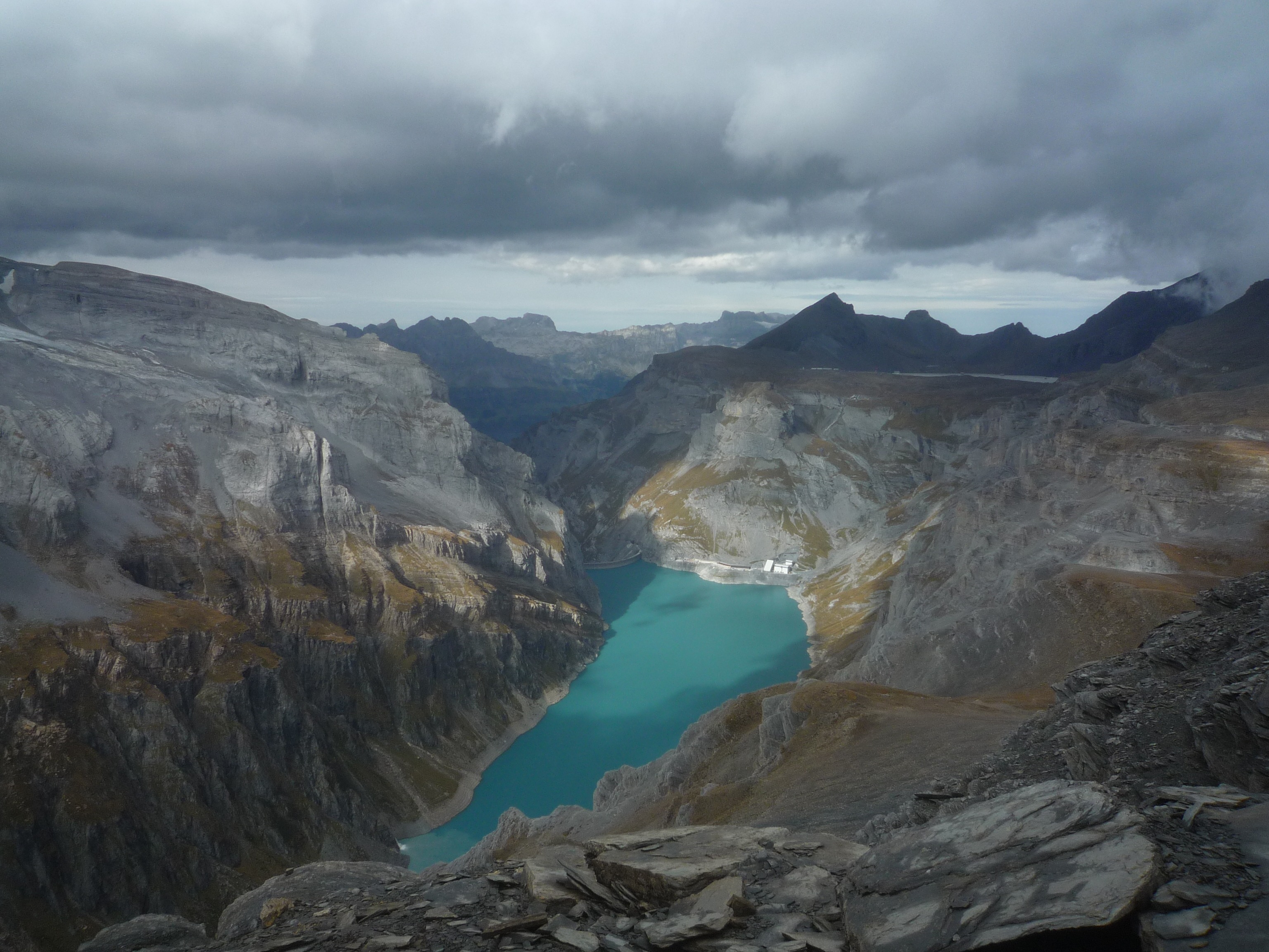 Limmernsee with the temporary cablecar to erect the Muttsee dam. Muttsee dam was finished October 2014.